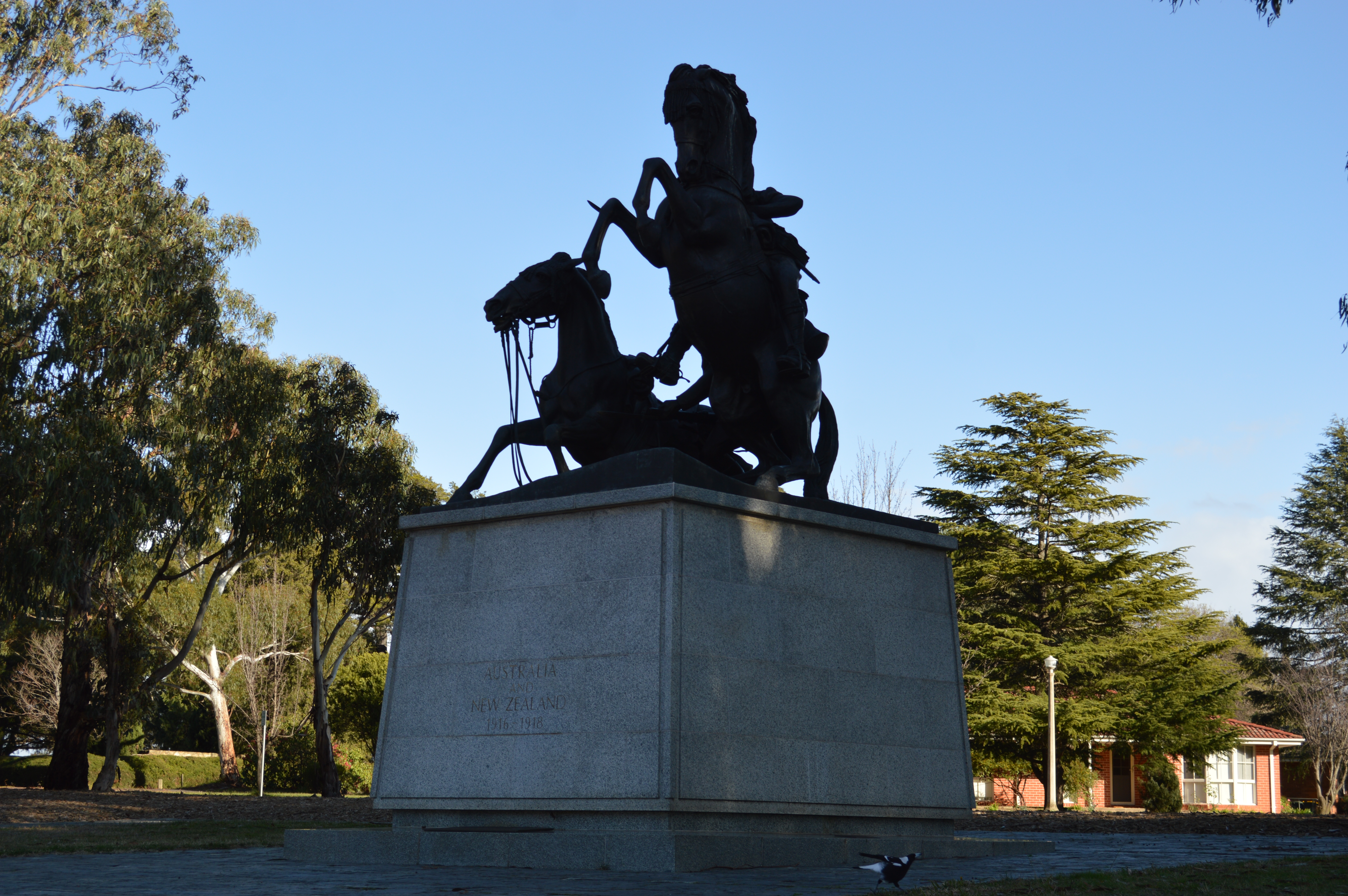 The Desert Mounted Corps Memorial in Canberra, Australia